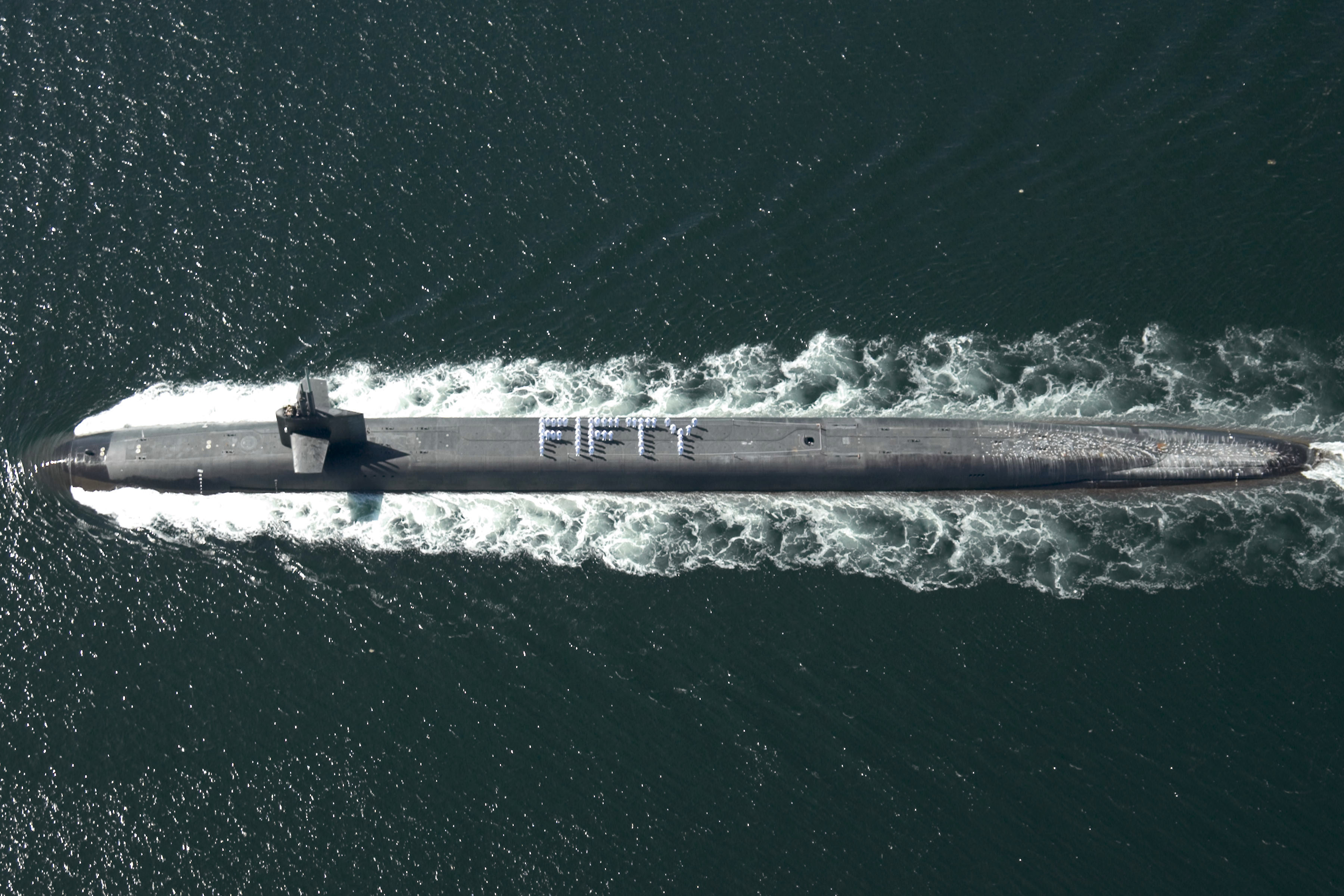 Sailors assigned to the Ohio-class fleet ballistic missile submarine USS Pennsylvania (SSBN-735) spell out the word “Fifty” as they return to Naval Base Kitsap. The Pennsylvania had just completed its 50th Patrol at sea, a significant moment in history for the submarine.